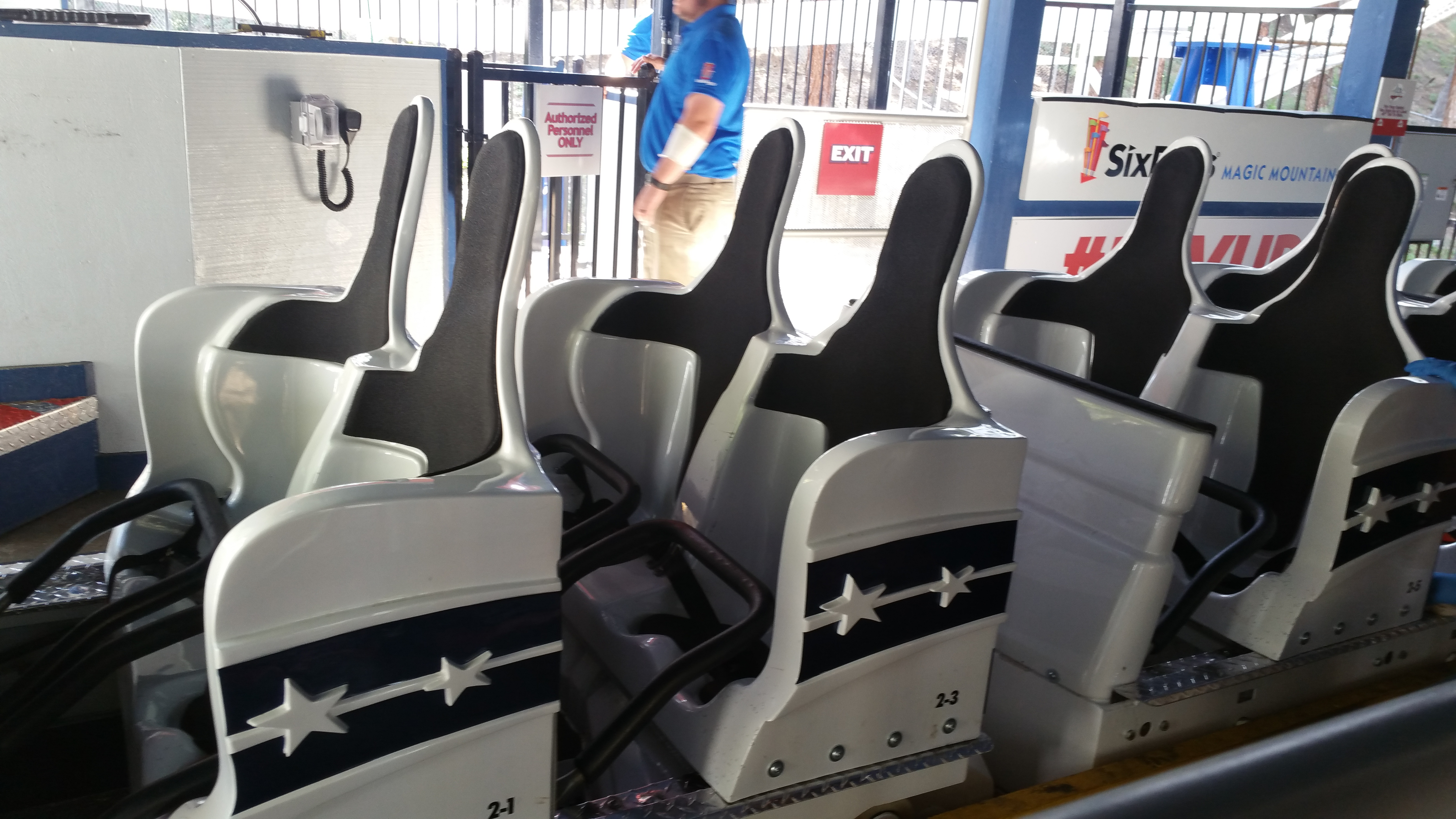 New seats